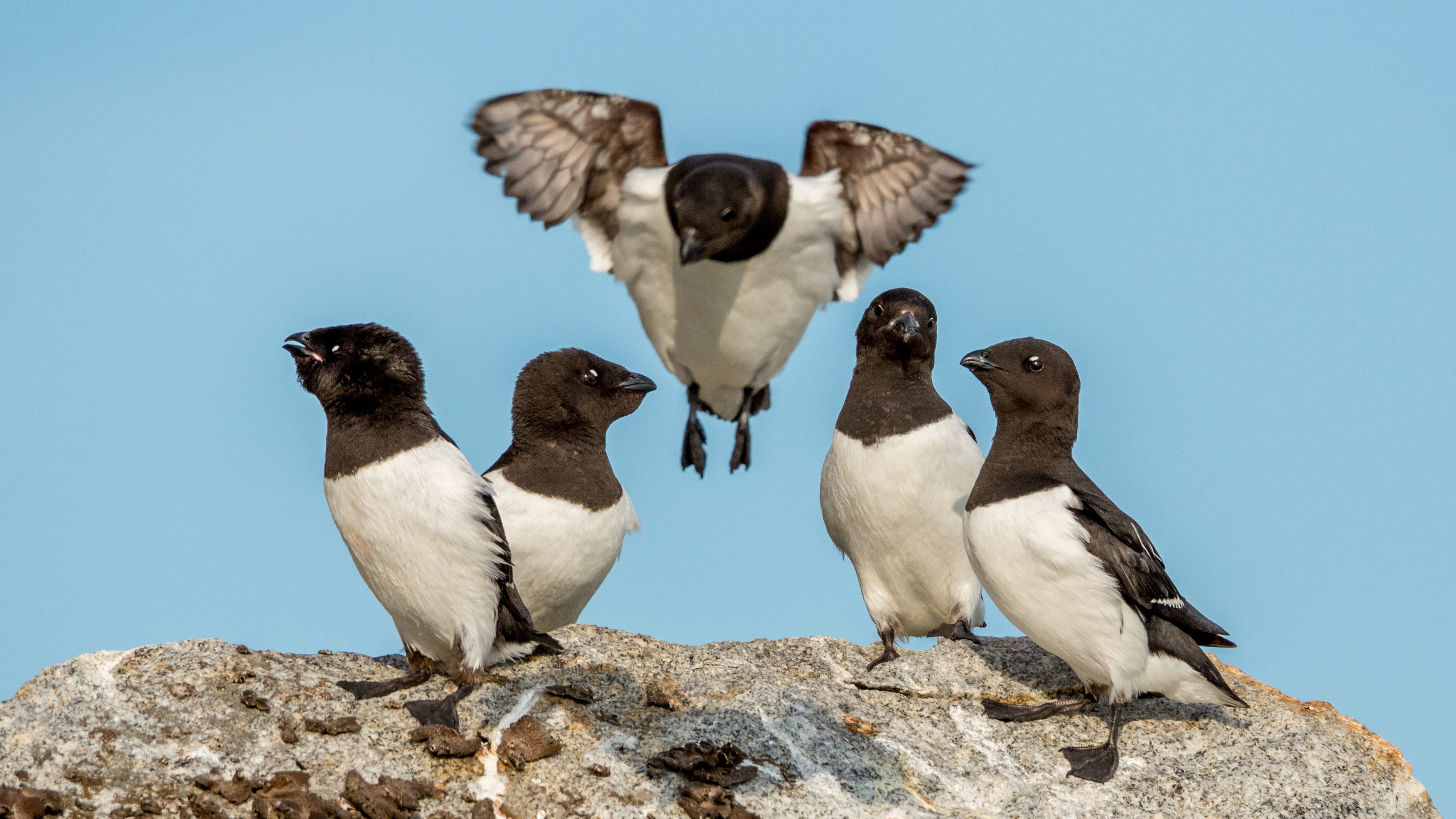 Little auks (Alle alle) are very curious birds, yet very spooky. If they are disturbed, almost the entire colony is going to fly up and is taking several turns above the breeding ground. When they are finally coming down again, there will often be a struggle for enough space to land.